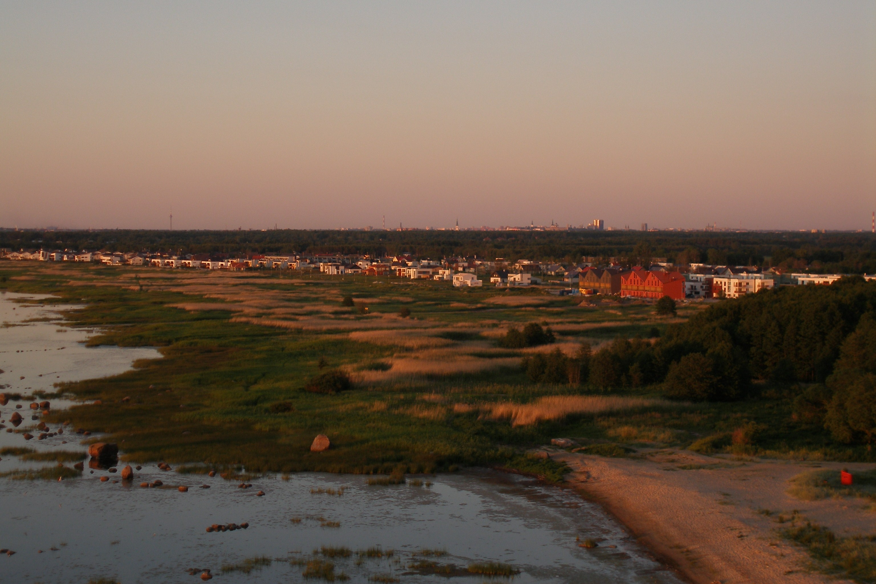 The neighborhood of Tiskre in Tallinn, Estonia, next to Kakumäe Bay. A newly built (in the 2000s) suburb consisting mainly of detached houses. Picture taken from Rannamõisa cliff, churches and other towers in Toompea and the center of Tallinn are visible in the background.